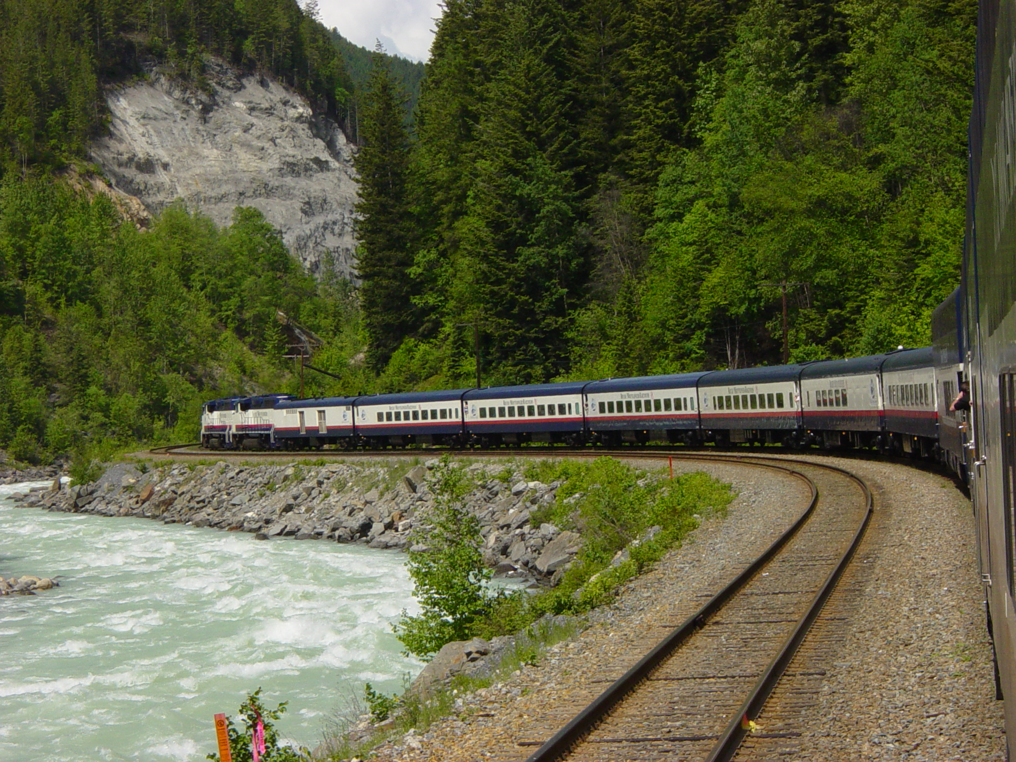 The Rocky Mountaineer enroute from Banff to Vancouver. Image by User:Leonard G.